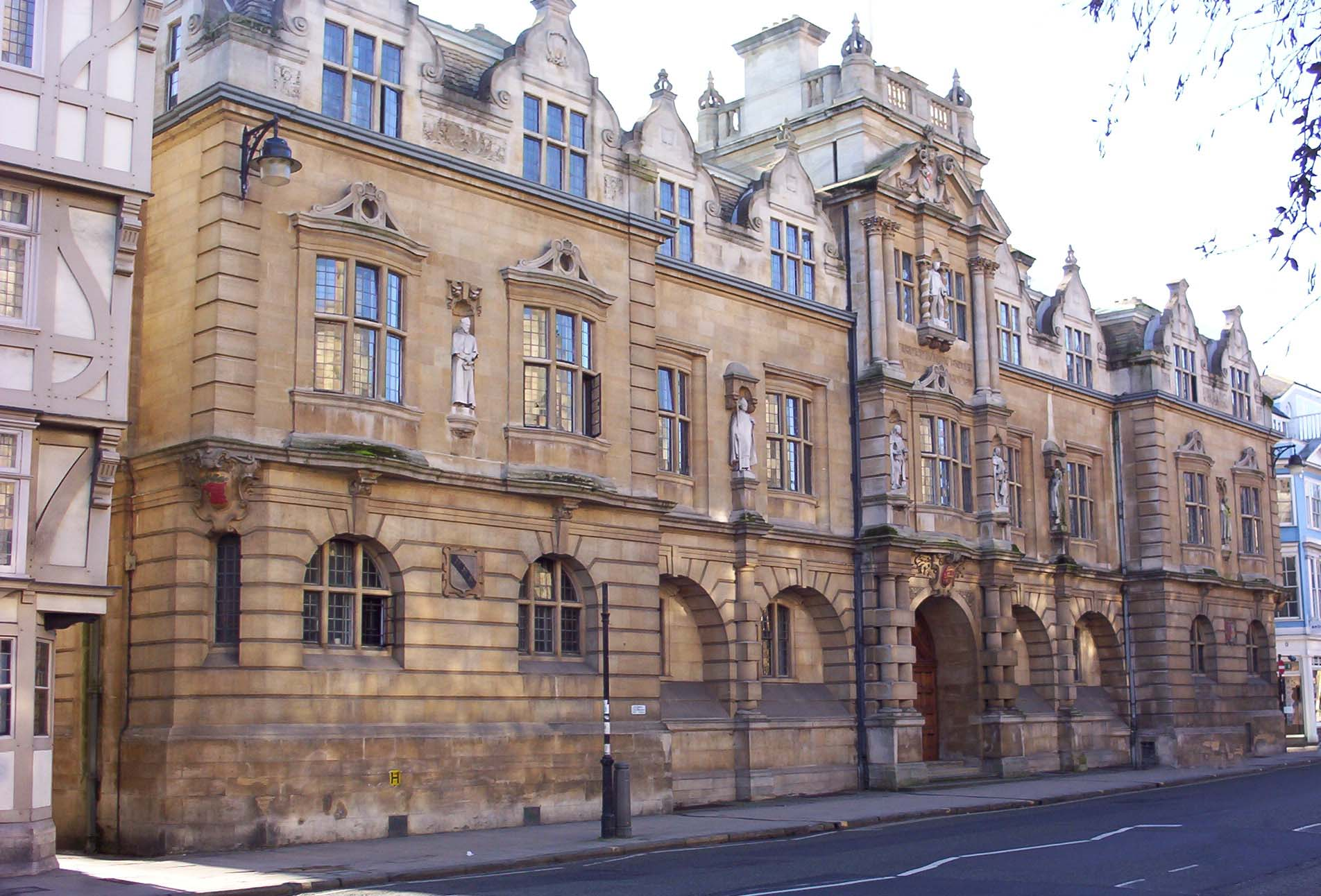 The Rhodes building of Oriel College, Oxford, seen from the northeast from the High Street